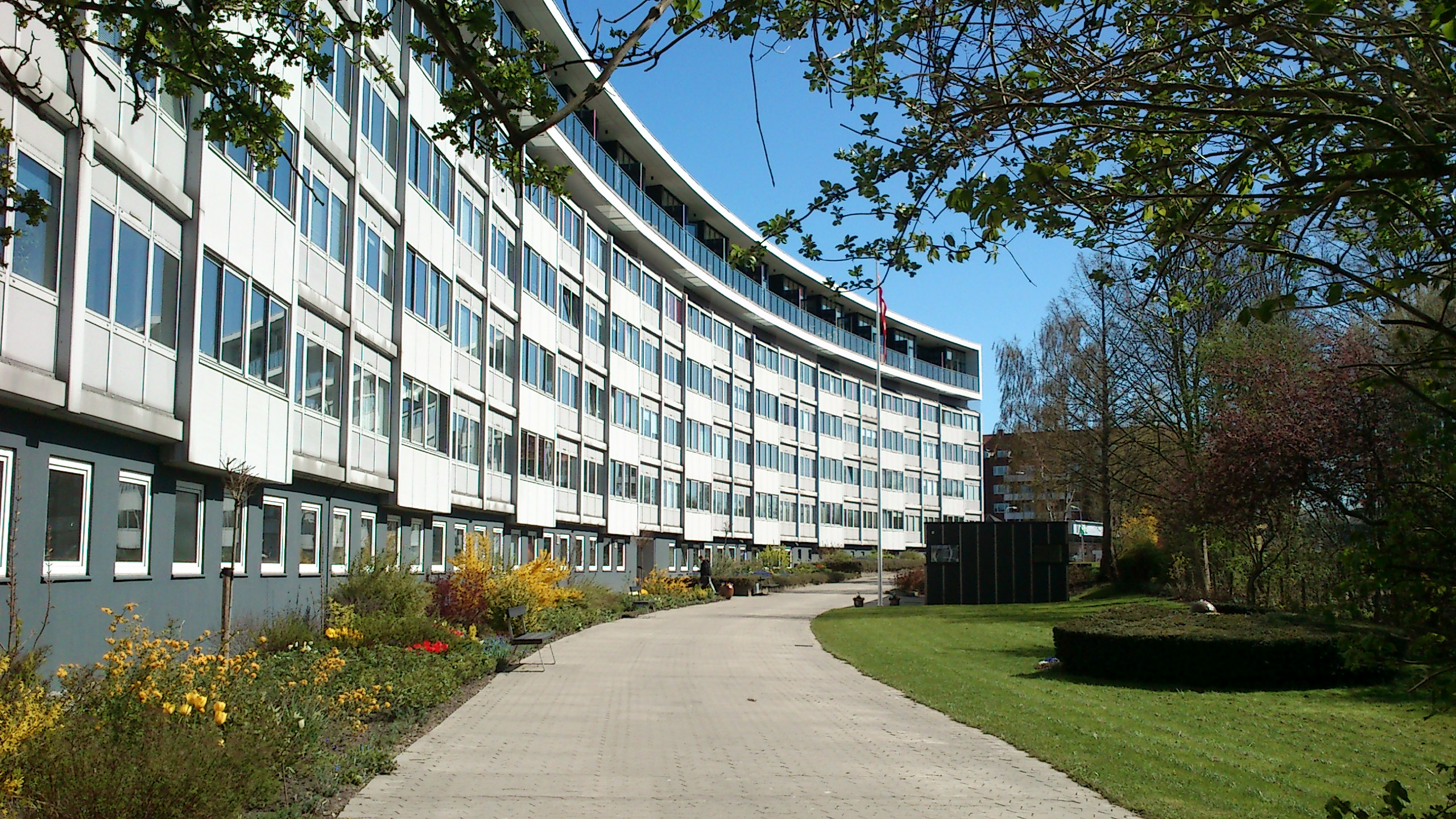 Langenæs